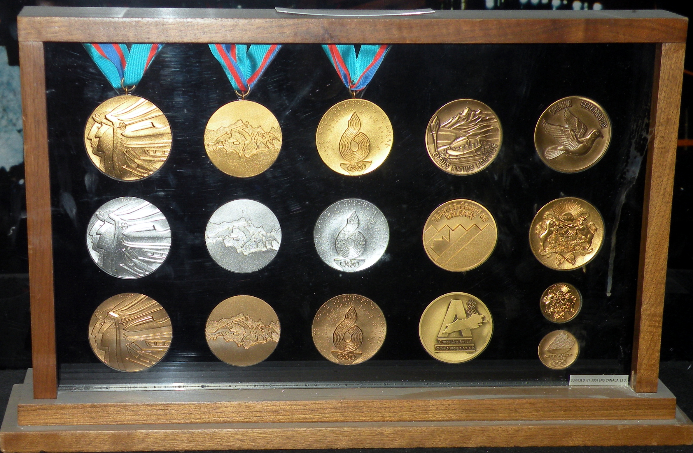 A set of medals from the 1988 Winter Olympics on permanent display at the Pengrowth Saddledome in Calgary.